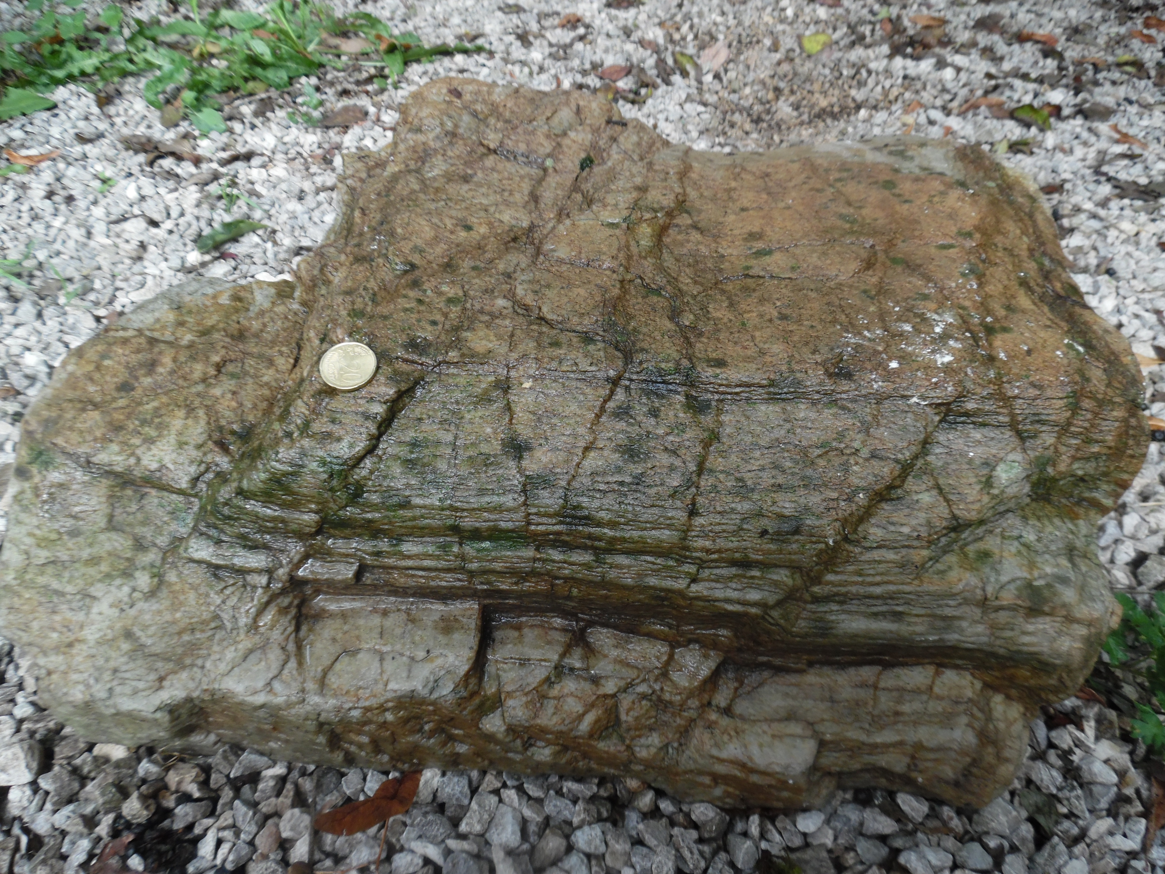 Ordovician quartzite from near Puy des Âges, Payzac, Dordogne, France.